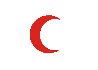 XI Corps, Army of the Potomac, 1st Division Badge